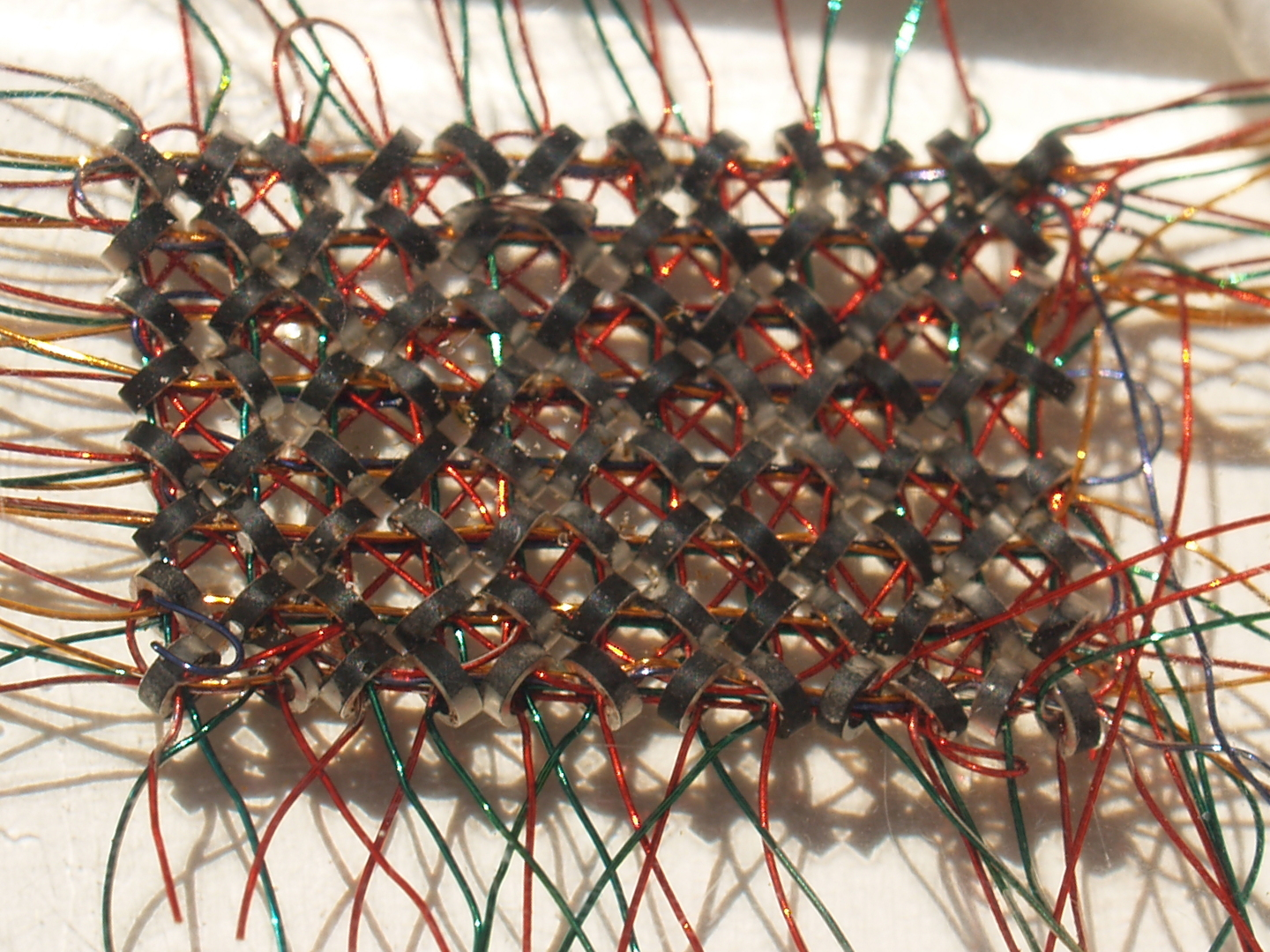 Memoria de ferrita de 12 bytes. This picture is of one plane that has been cut from a Soemtron 220 series calculator, the full sized stack is 4 planes of 8 x 12.